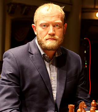 Denis Khismatullin at Superfinal of the Russian Chess Championship, Satka, 2018